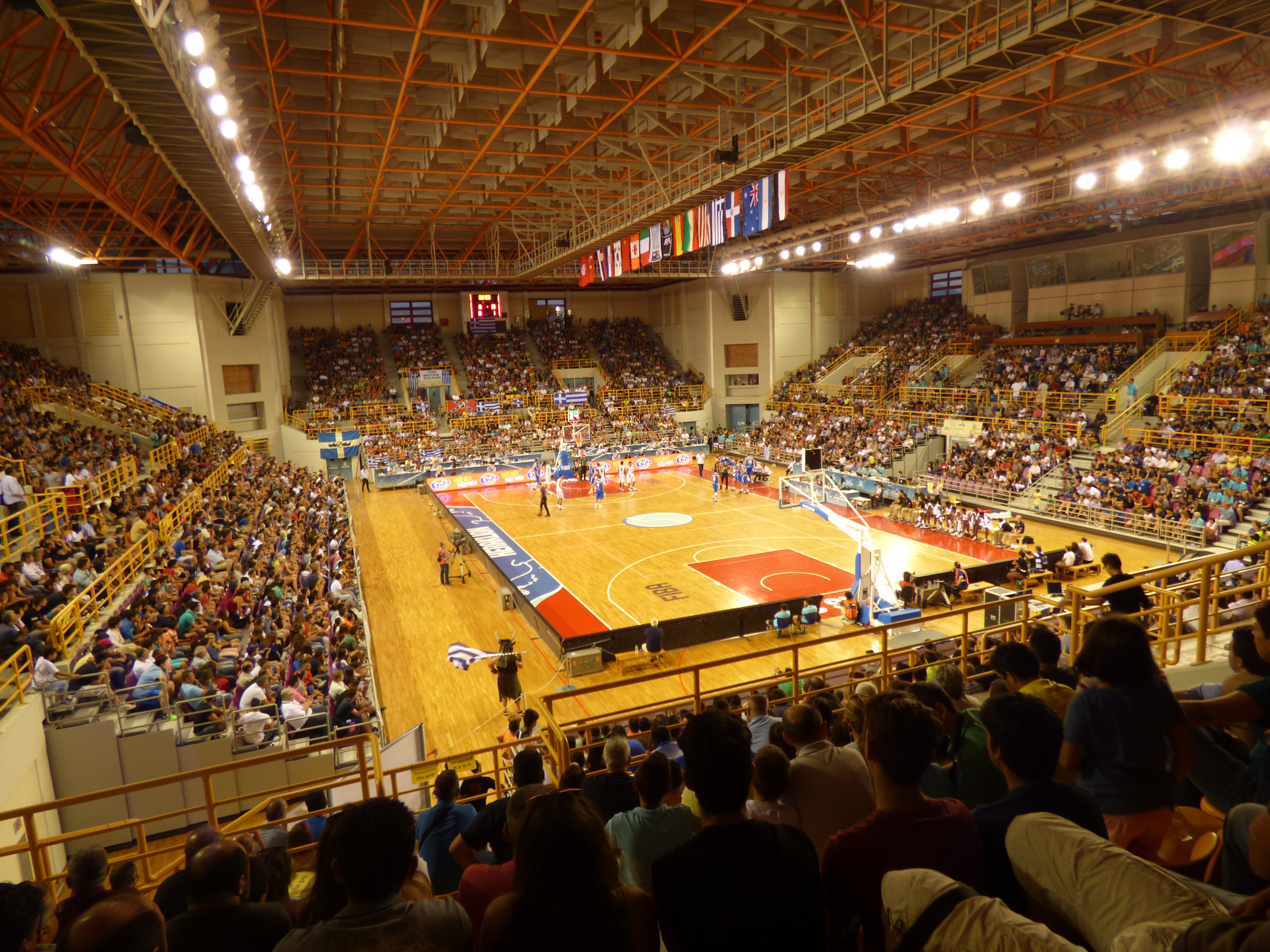 Heraklion Indoor Sports Arena interior during the 2015 FIBA Under-19 World Championship